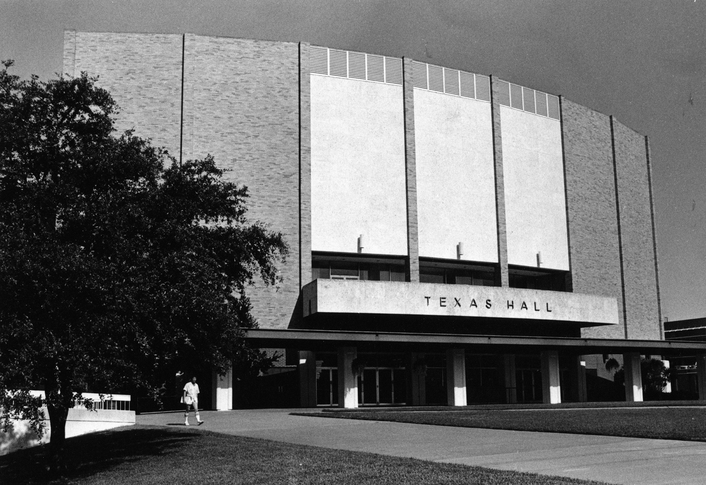 Student walking near newly constructed Texas Hall auditorium, Arlington State College campus.